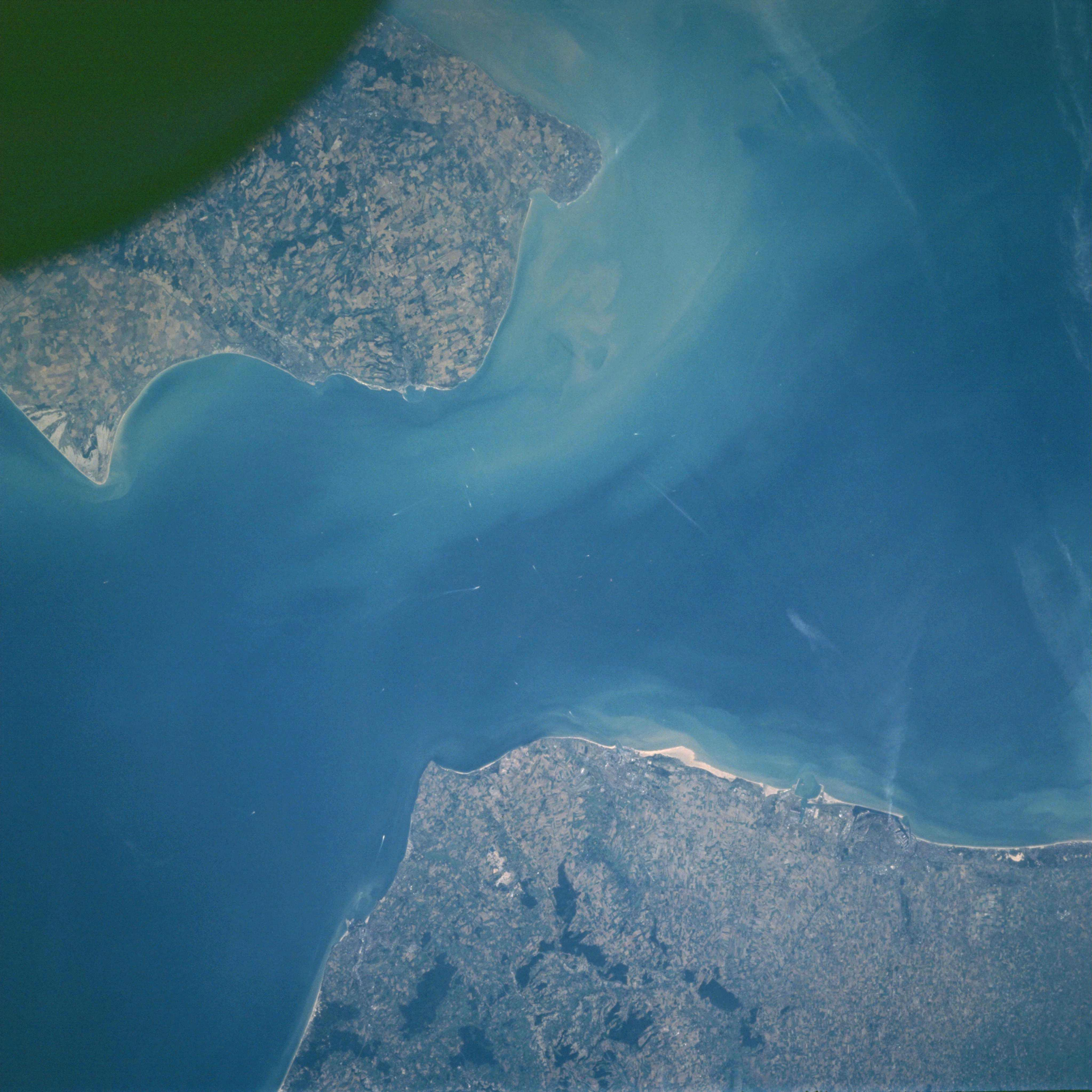 Strait of Dover